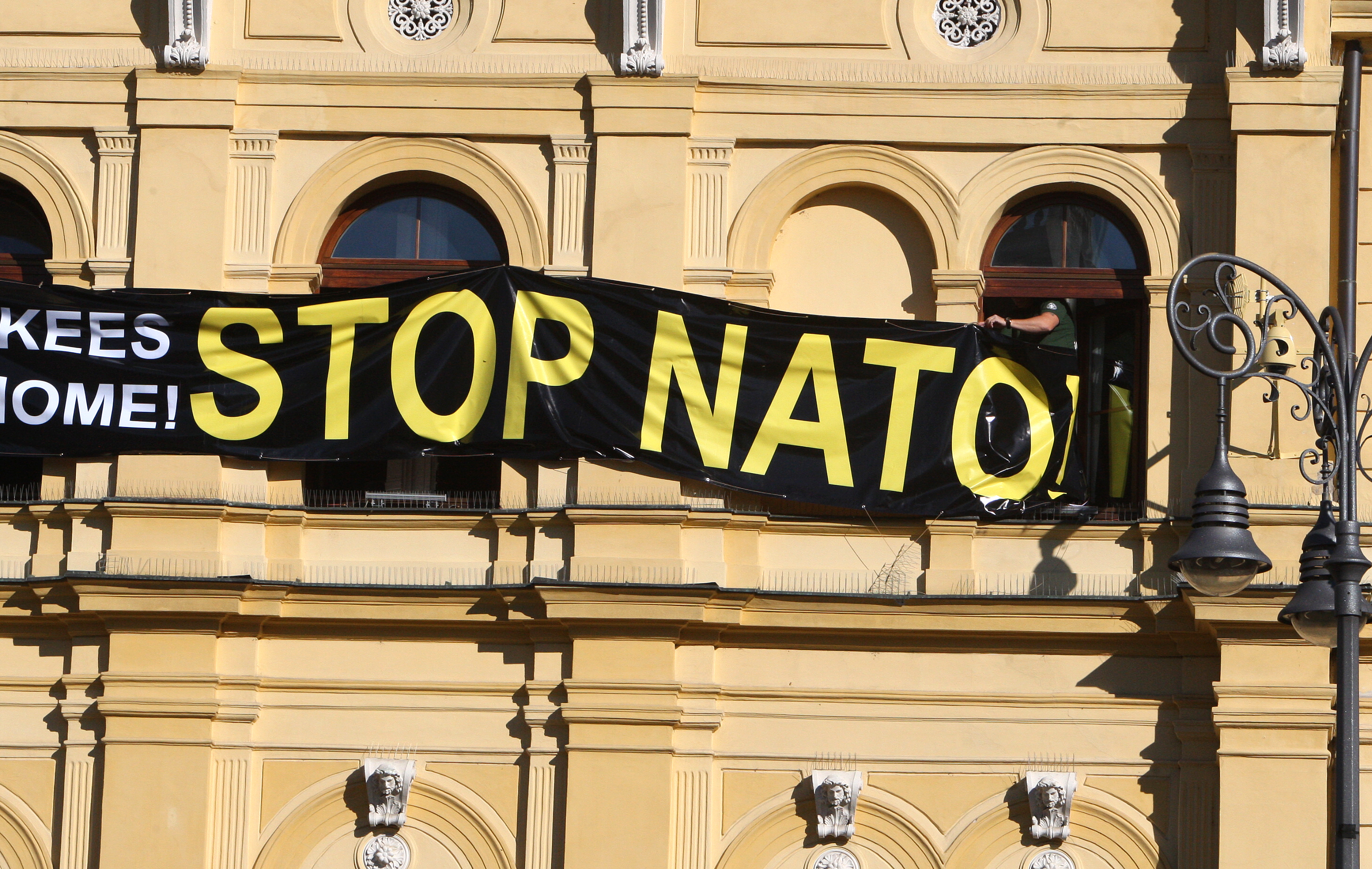 Banská Bystrica, 70th annual celebrations of the Slovak National Uprising. Marian Kotleba, the head of the region administration, and the head of the PR department Miroslav Belička put up a banner saying ‘Yankees go home! STOP NATO!’